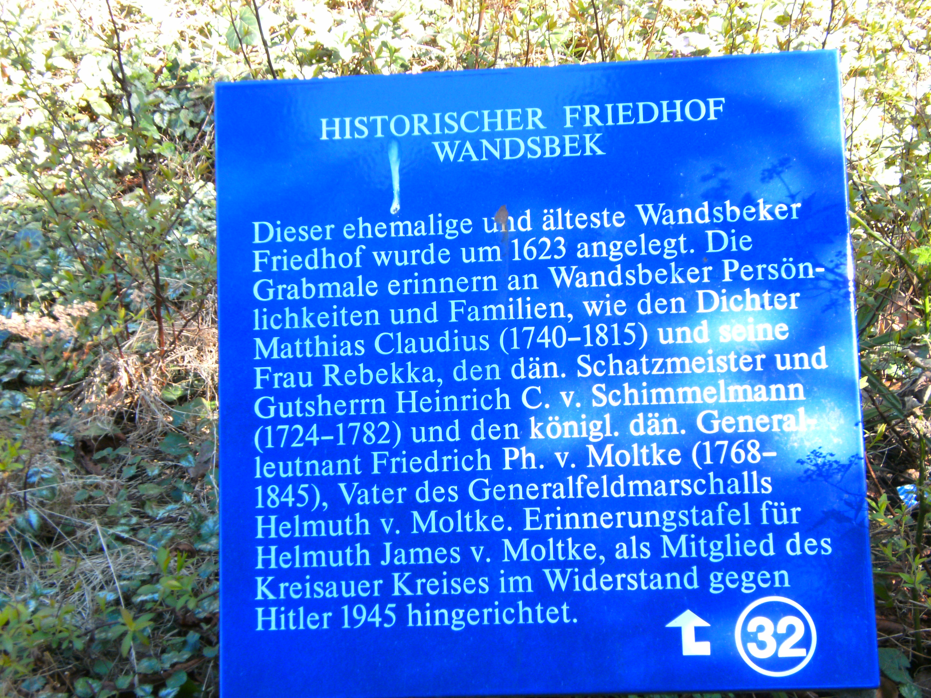 Tafelprogramm Hamburg: historical cemetery in Wandsbek (Historischer Friedhof Wandsbek) in Hamburg.